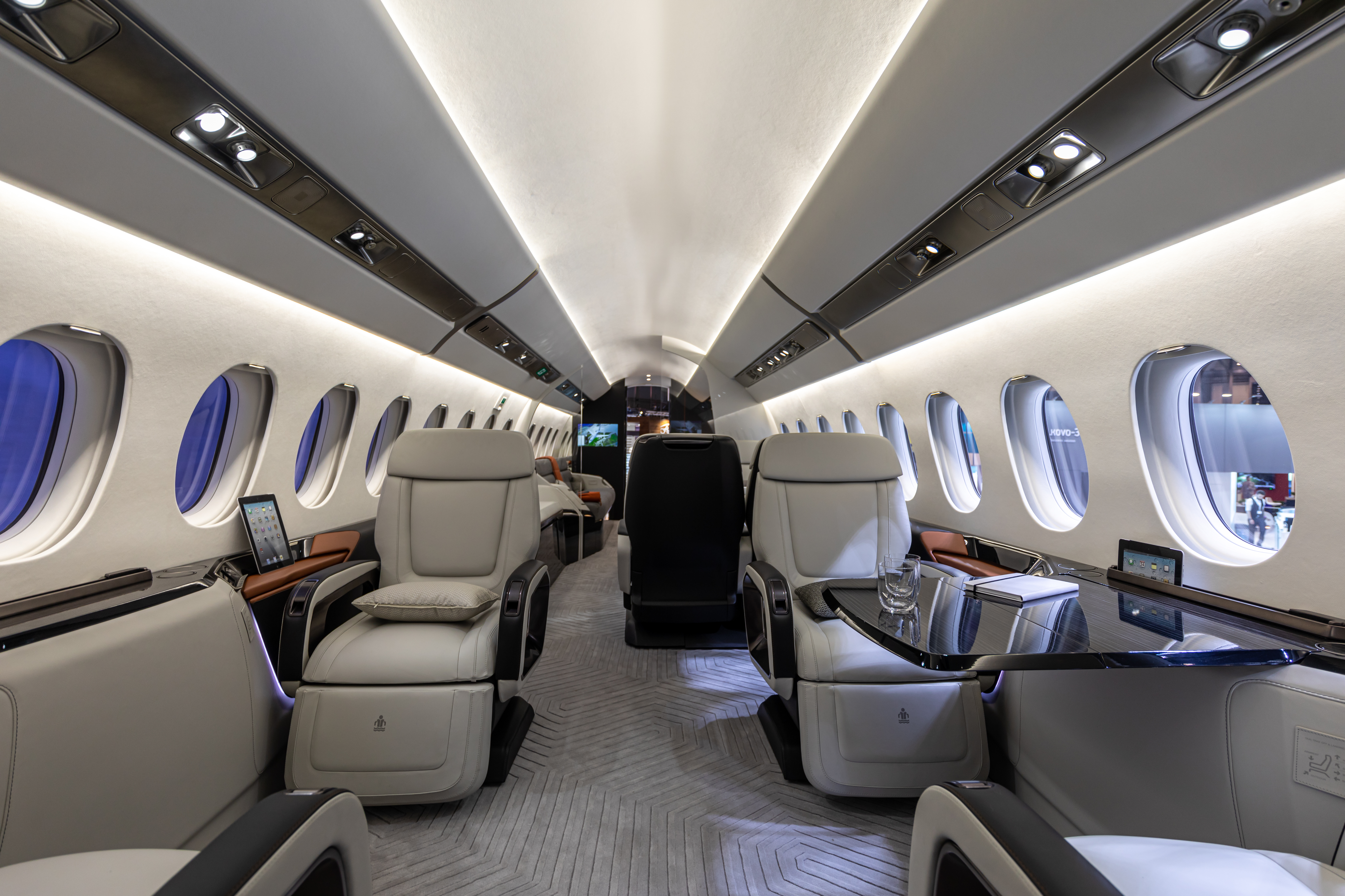 Mock-up interior of a Dassault Falcon 6X at EBACE 2019, Palexpo, Switzerland